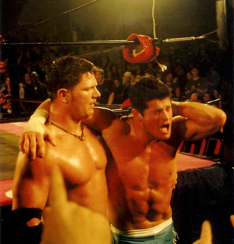 The Wrestlers AJ Styles & Matt Sydal